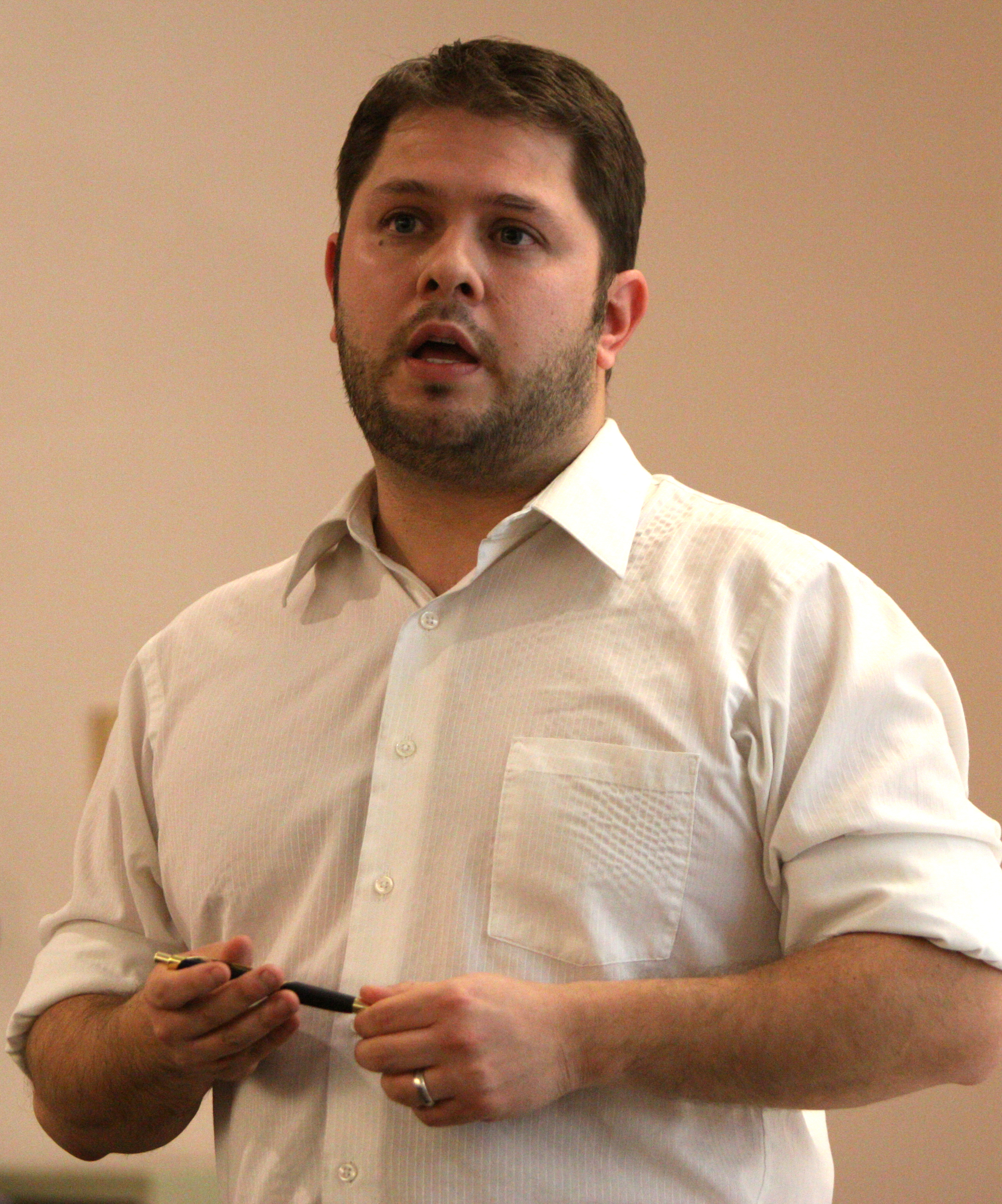 Ruben Gallego speaking at at Arizona State University in Tempe, Arizona.